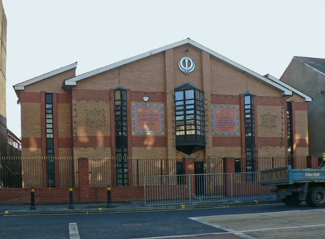 Singh Sabha Gurdwara Bhatra Sikh Centre, Tudor Street - Cardiff